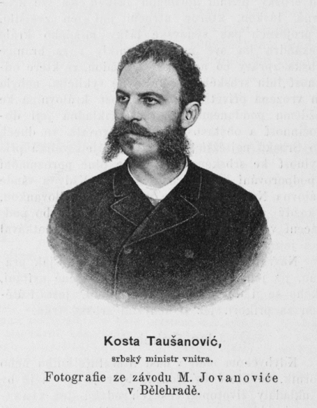 Portrait of Kosta Taušanović (1854-1902), a Serbian politician and banker.